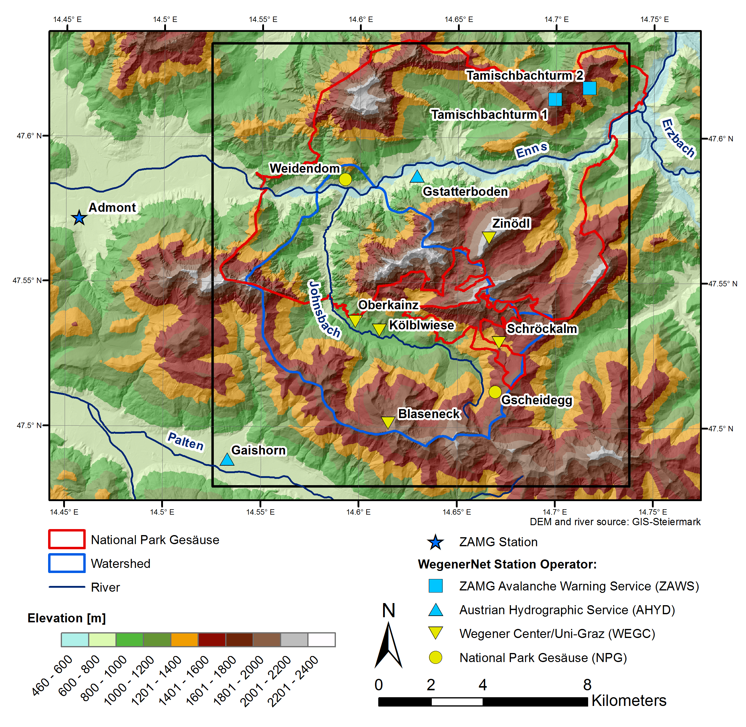 Station locations of the WegenerNet Johnsbachtal. Stations are marked by yellow symbols. Station operators: Wegener Center for Climate and Global Change (downward looking triangles), Hydrographic Service Styria (upward looking triangles), OEBB/ZAMG Avalanche Warning Service Styria (squares), Gesäuse National Park (circles), and ZAMG (star symbol). The blue line marks the border of the watershed. The red line marks the border of the Gesäuse National Park.